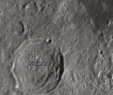 Delambre lunar crater as seen from Earth with satellite craters labeled